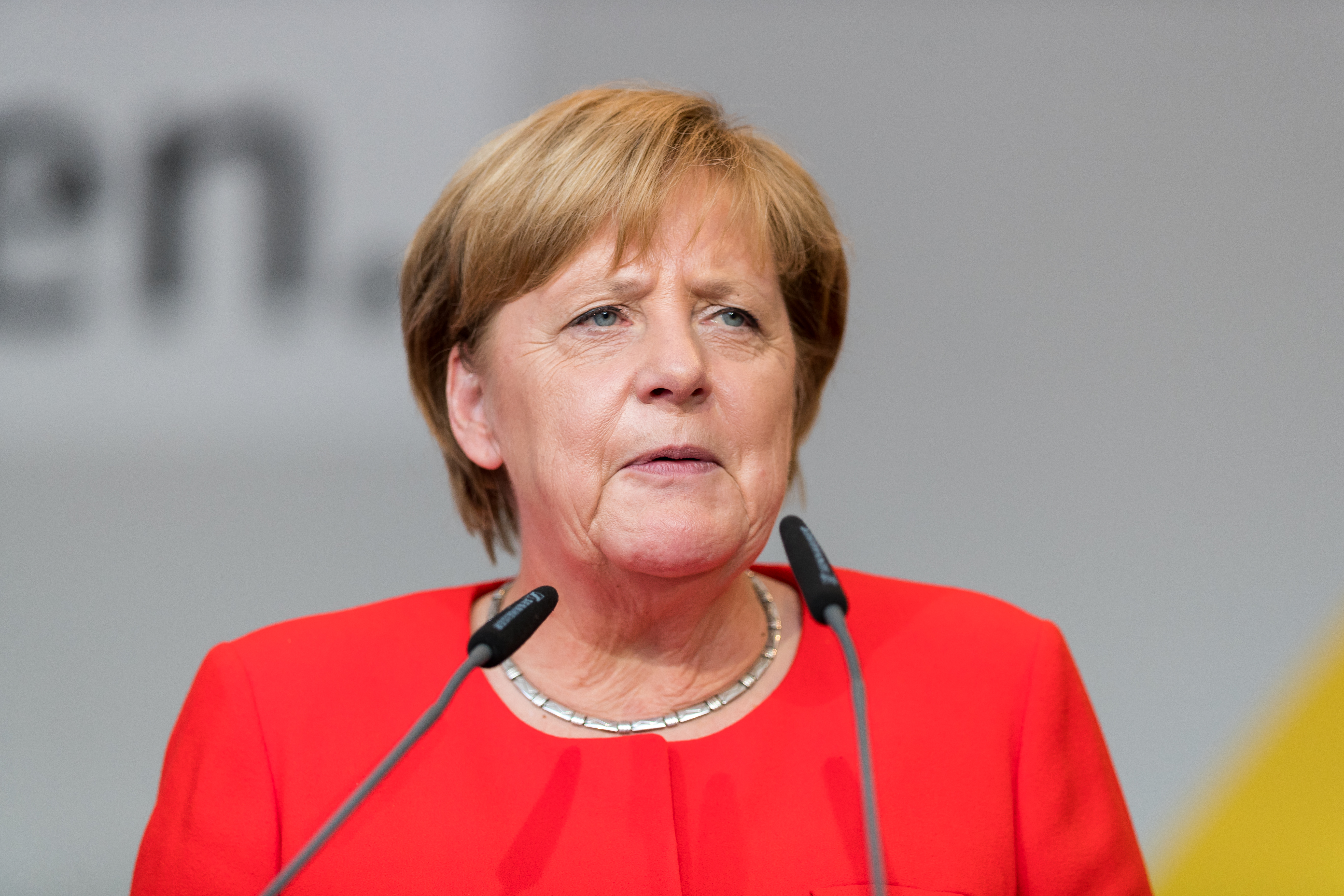 Angela Merkel during CDU Wahlkampf Heidelberg at Universitätsplatz Heidelberg, Heidelberg, Baden-Württemberg, Germany on 2017-09-05, Photo: Sven Mandel Claudia von Brauchitsch Karl Alfred Lamers Thomas Strobl